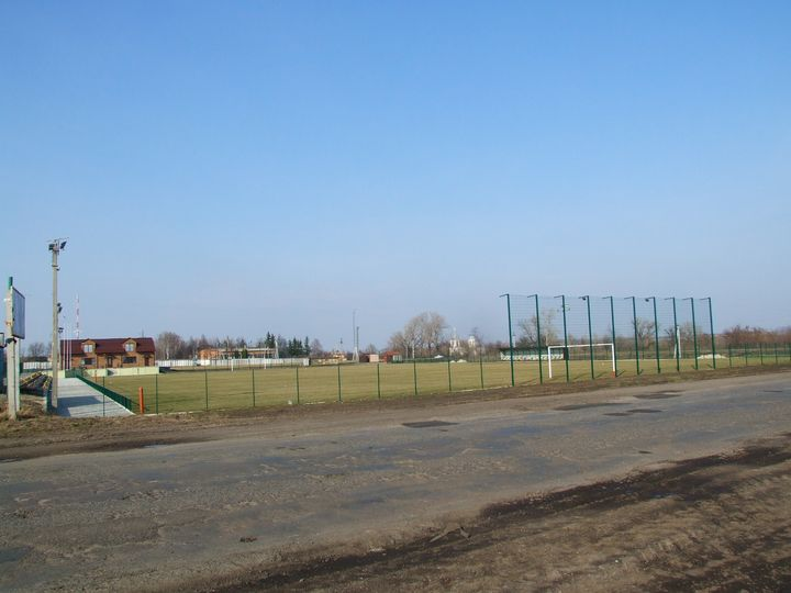 Viktoria Stadium in Mykolaivka, Bilopillia Raion, Sumy Oblast, Ukraine